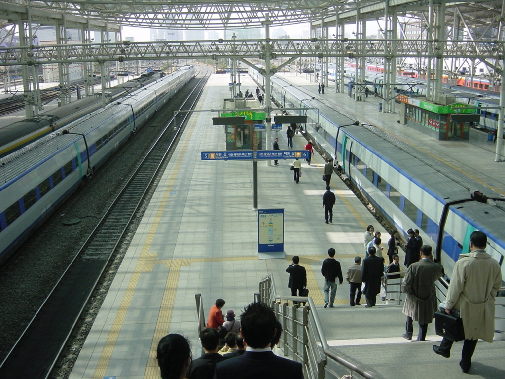 Seoul Station platform for KTX. Rolling stock for Mugunghwa-ho which colored orange can be seen on the right.